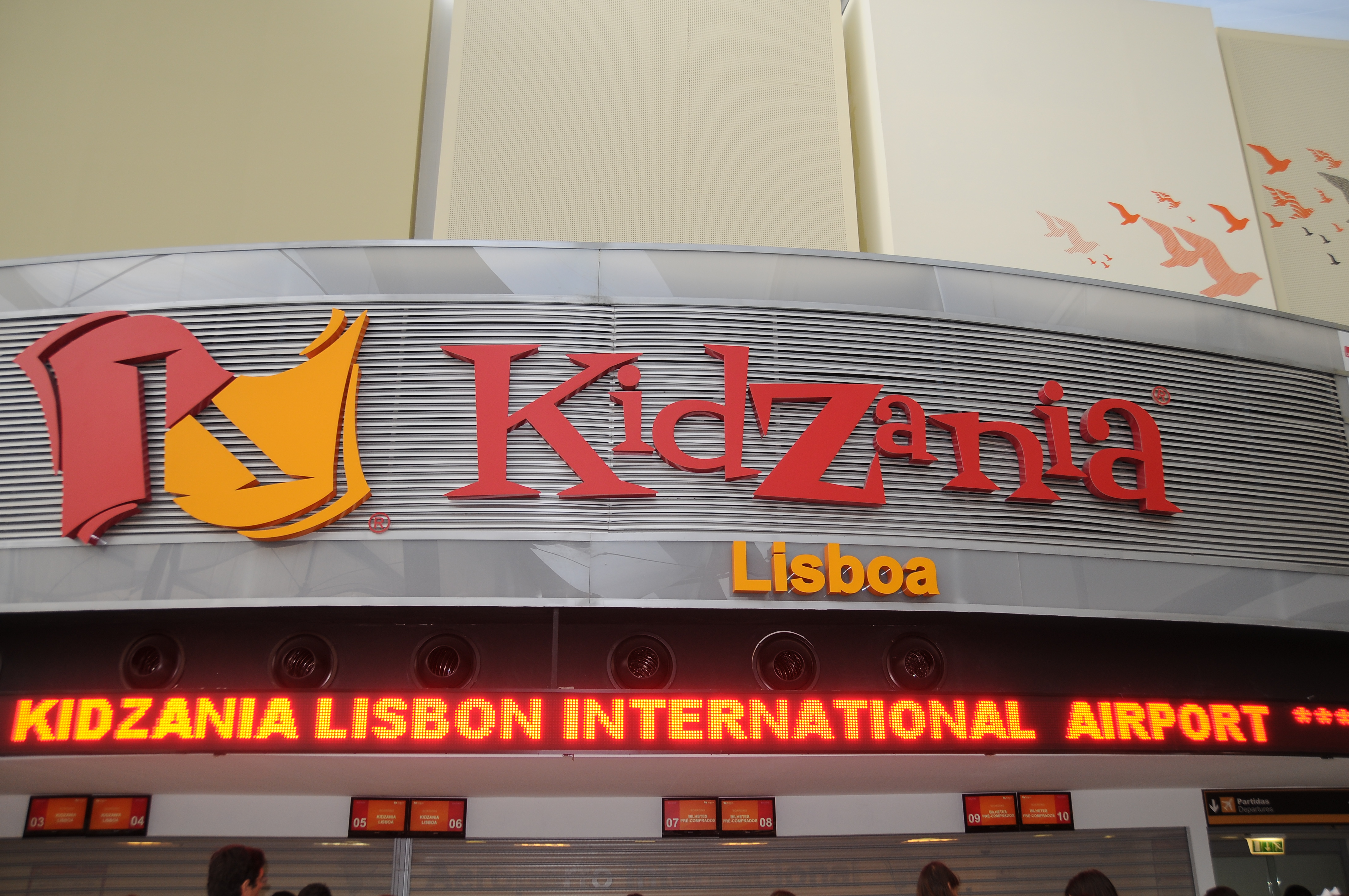 Kidzania in Dolce Vita Tejo, Amadora Portugal.